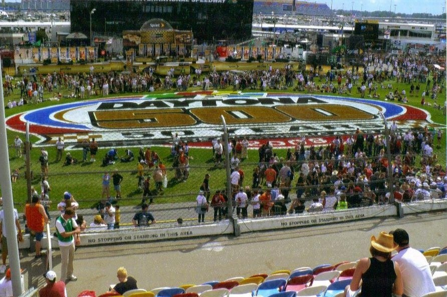 Daytona 500